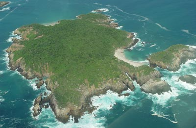 La Cocina Island in Chamela Bay or Island Bay. Chamela, Municipio de la Huerta, Jalisco, Mexico.